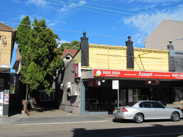 Stanmore House: Street view of 88 Enmore Road